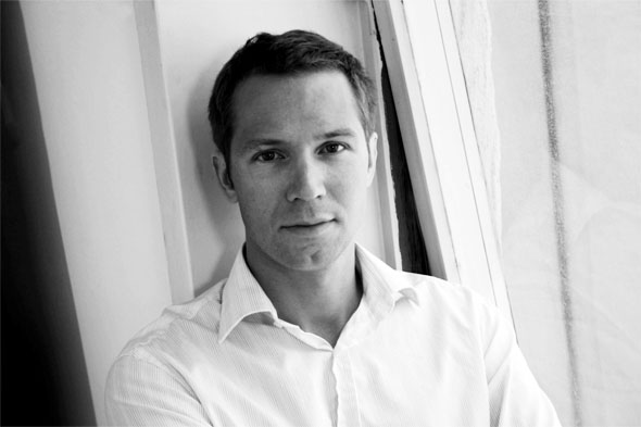 Norwegian screenwriter and novelist Christopher Grøndahl